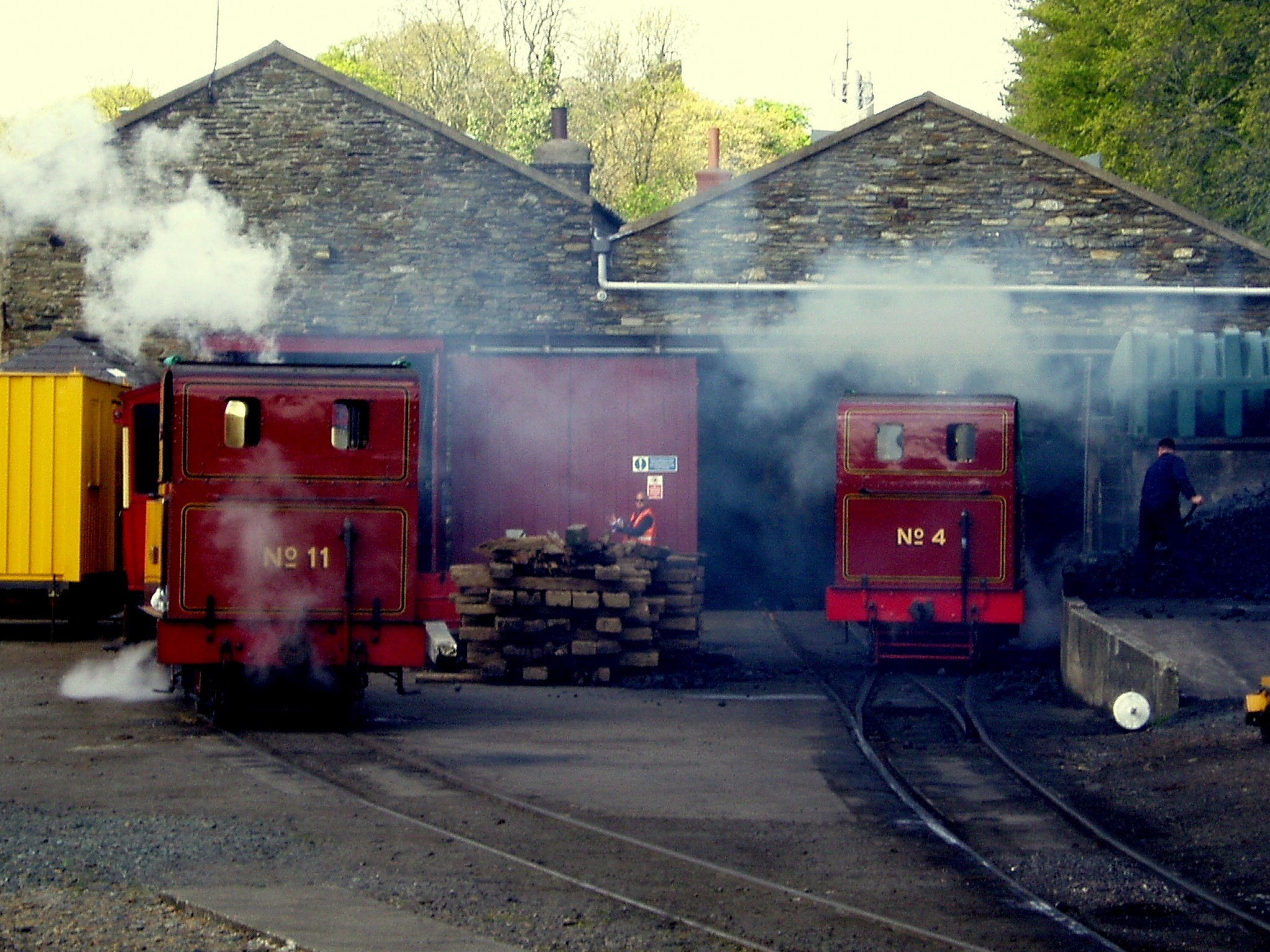 View from the platform of Douglas sheds and workshops